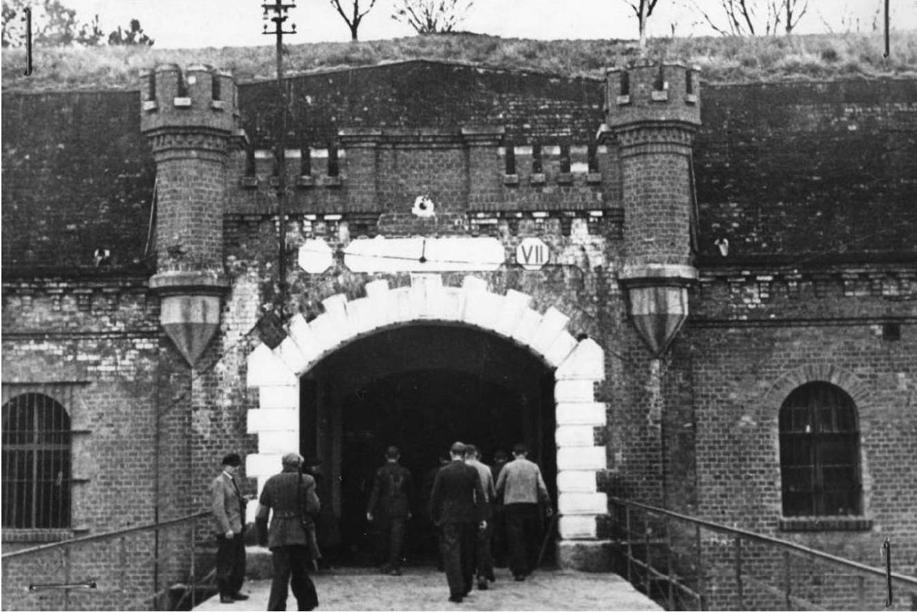 German internment camp in Fort VII of Toruń Fortress. Arrested Poles and their guards (members of Volksdeutscher Selbstschutz) standing before fort’s gate. In the first months of German occupation few thousand Poles were imprisonment in Fort VII. At least 600 of them were executed in Barbarka forest.